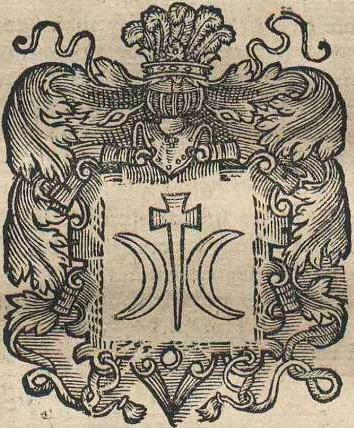 Ostoja according to Gniazdo cnoty